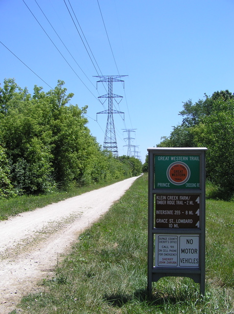 Great Western Trail of Illinois at Prince Crossing Road, looking east. I am the author of this image. —Rob (talk) 21:40, 22 August 2006 (UTC)